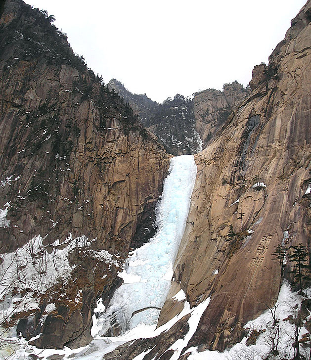 Kuryong Fall in Geumgangsan